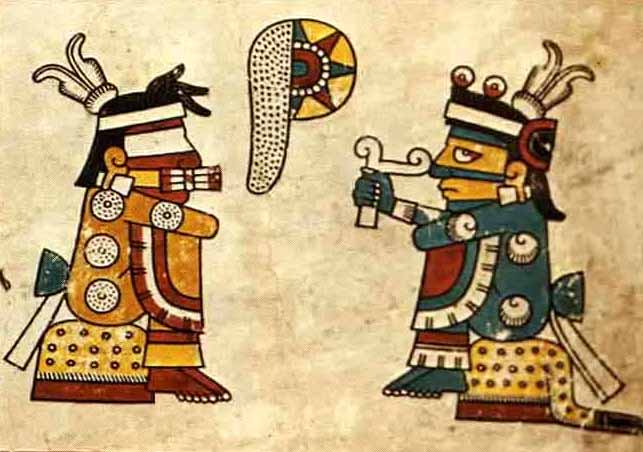 A drawing of Blue and Red Tezcatlipocas, two of the deities described in the Codex Fejérváry-Mayer